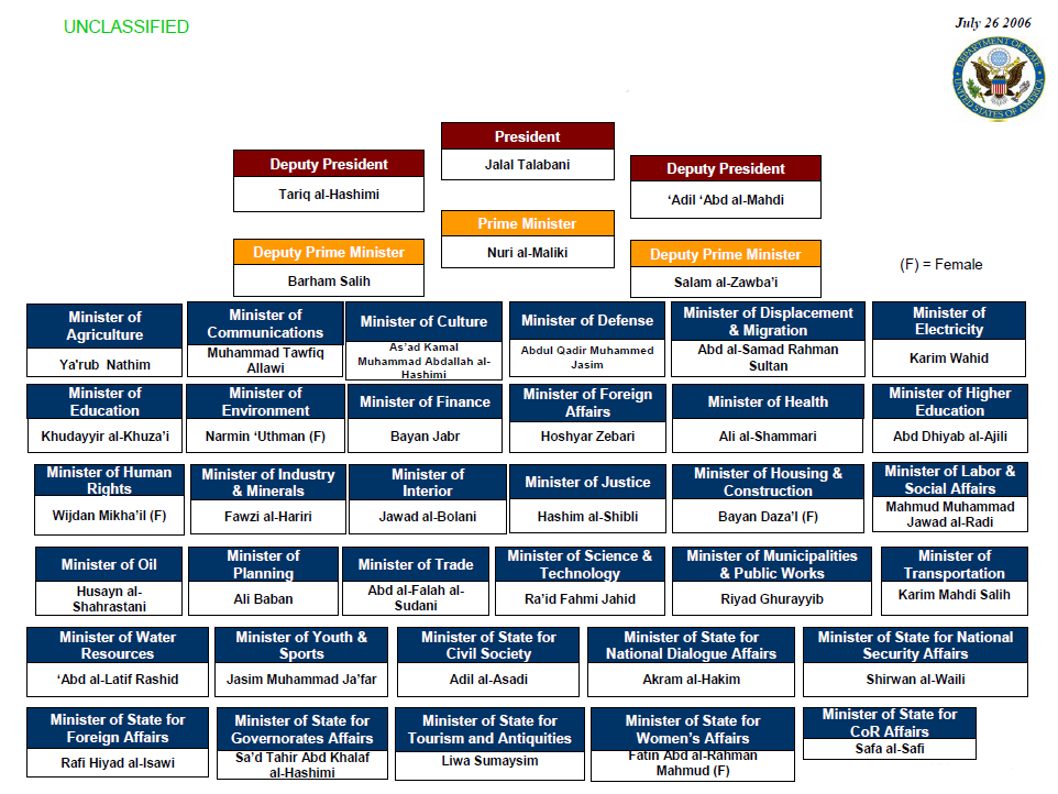 Organization and composition of the Iraqi Federal Government, as of July 2006. Extracted from the weekly Iraq Status Report, by the Bureau of Near Easter Affairs, US Department of State.